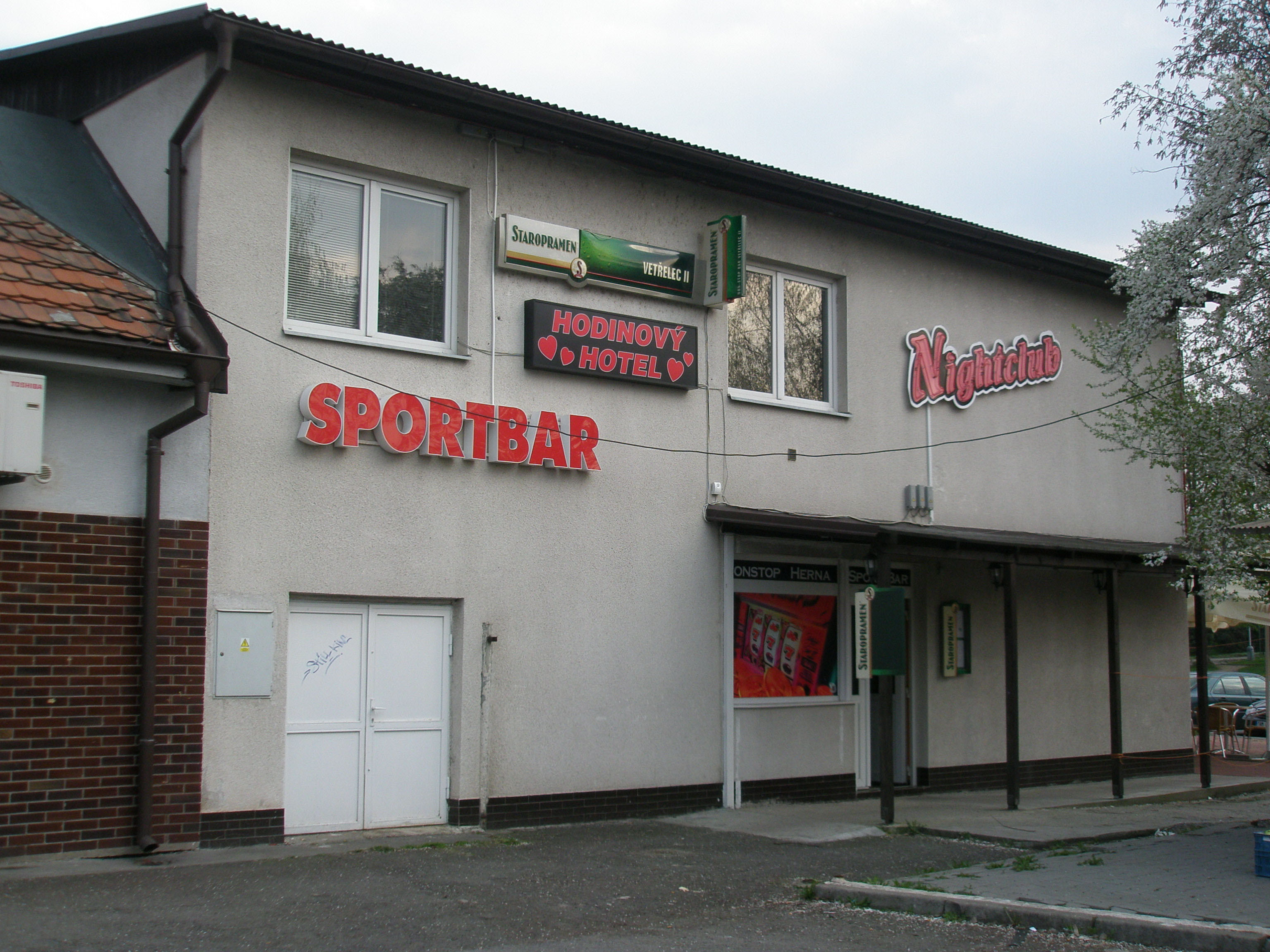 “Hour-hotel” in Prague